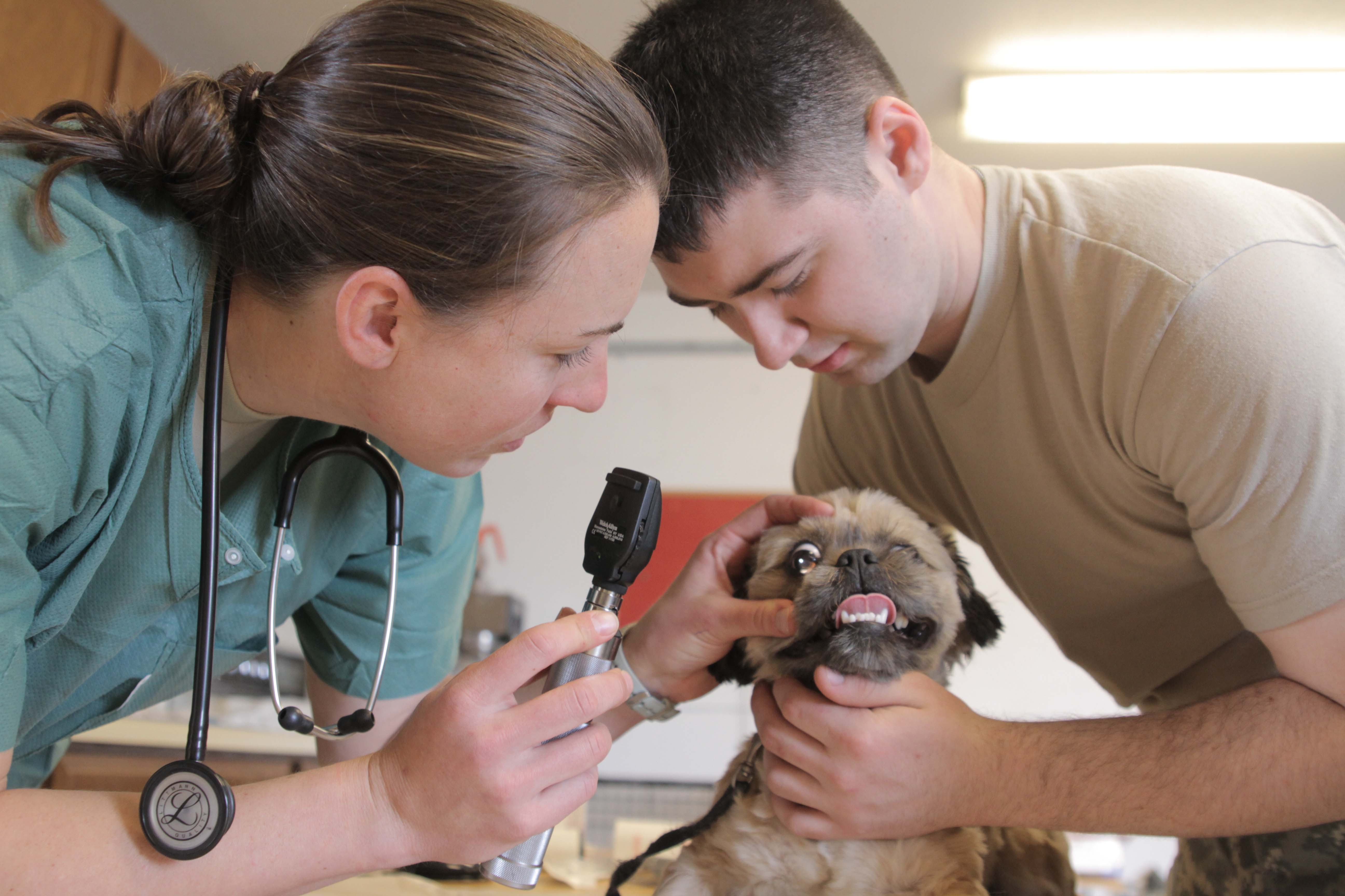 Capt. Brooke Henderson (left), veterinarian, 993rd Medical Detachment, U.S. Army Reserves, performs an eye exam on Wilson, a Maltese mix puppy, in Nome April 18 while U.S. Army Reserve Sgt. Andrew King, 949th Medical Detachment, holds him during the procedure. "We just came from Brevig Mission where we performed 40 vaccinations and seven surgeries,"Henderson said. (Photo by Maj. Guy Hayes)